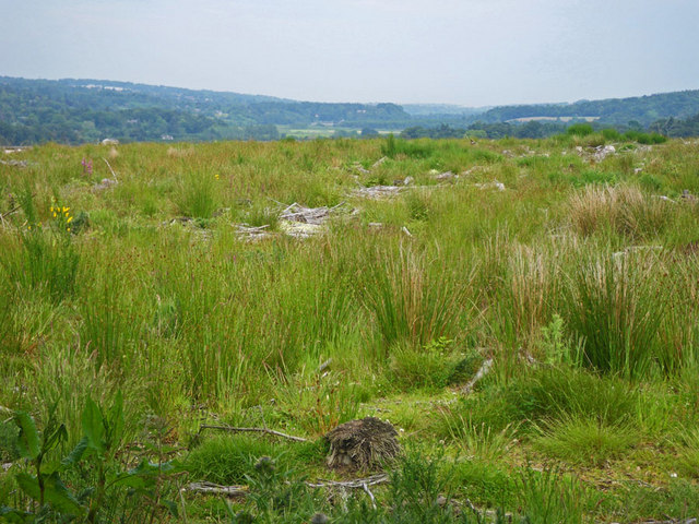 View of the North Sea through the Dee Valley from Normandykes This view is across the broad ridge where the ancient Normandykes Roman Camp was situated. The foreground is a juncus ("Juncus effusus") dominated area where the camp itself would have been laid out. A view of the North Sea was vital to the Romans so that they could use signal communications with the roman fleet from the camp site.